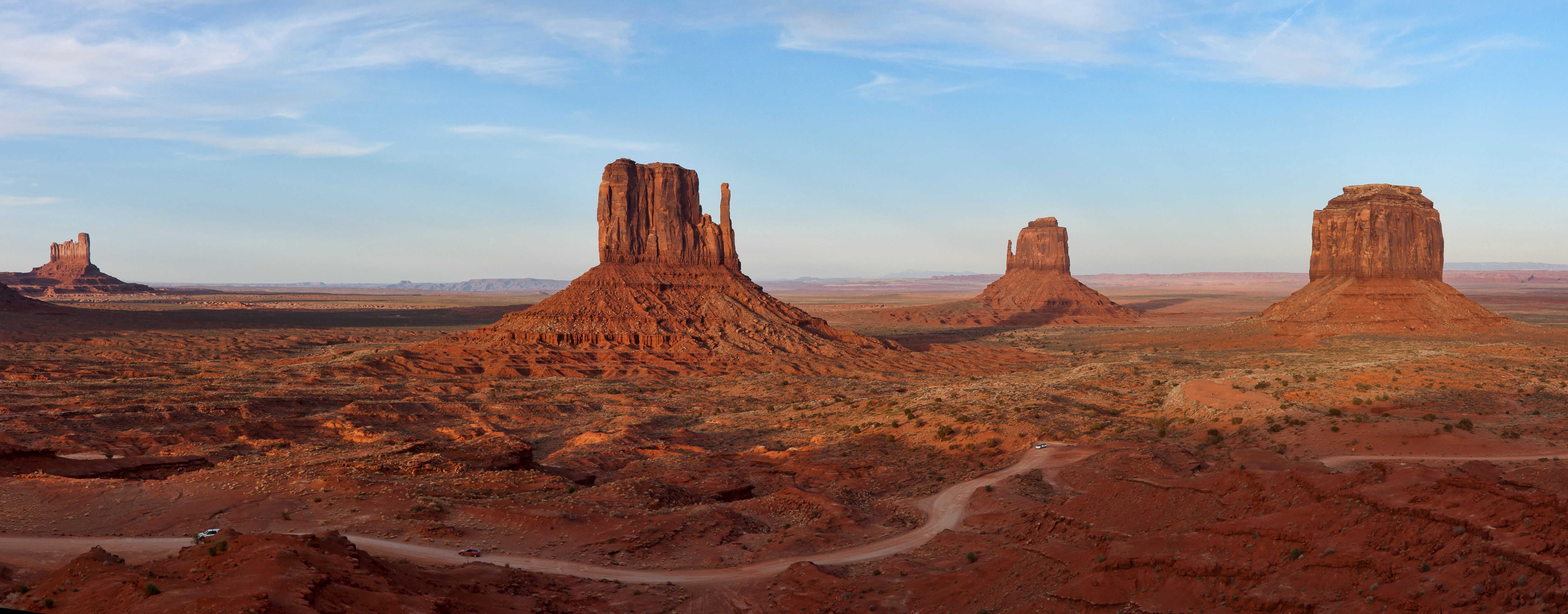 Monument Valley panorama, taken from the Visitor Center and showing the "Mittens" and the road which makes a loop-tour through the Park